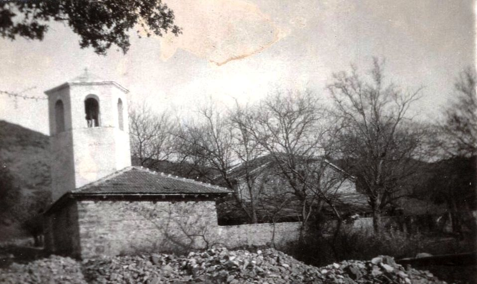 Gradec (Valandovo), 1931 This media file is produced by Wikipedian in Residence in Category:Wikipedian in Residence at DARM in 2016.